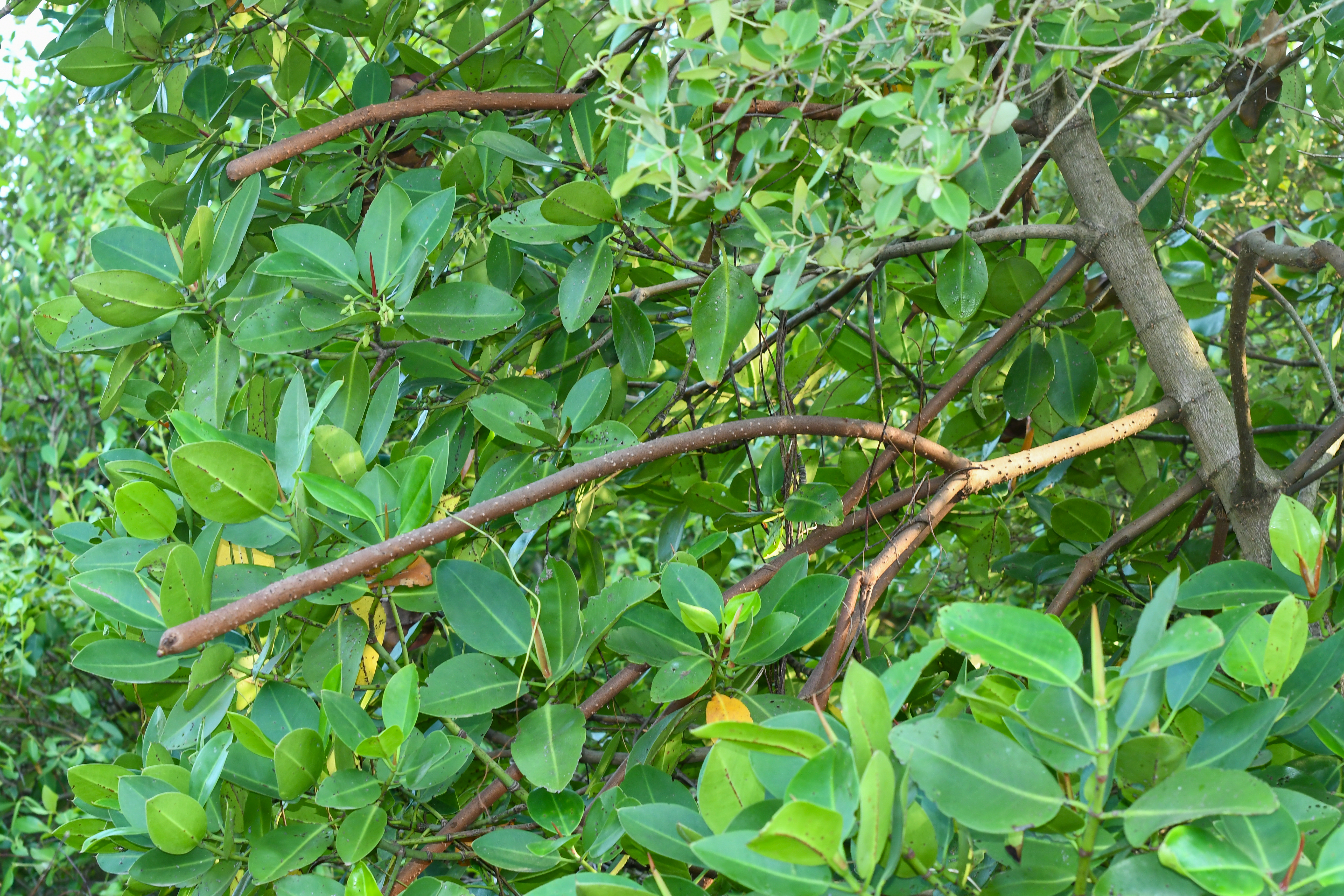 Mangroves